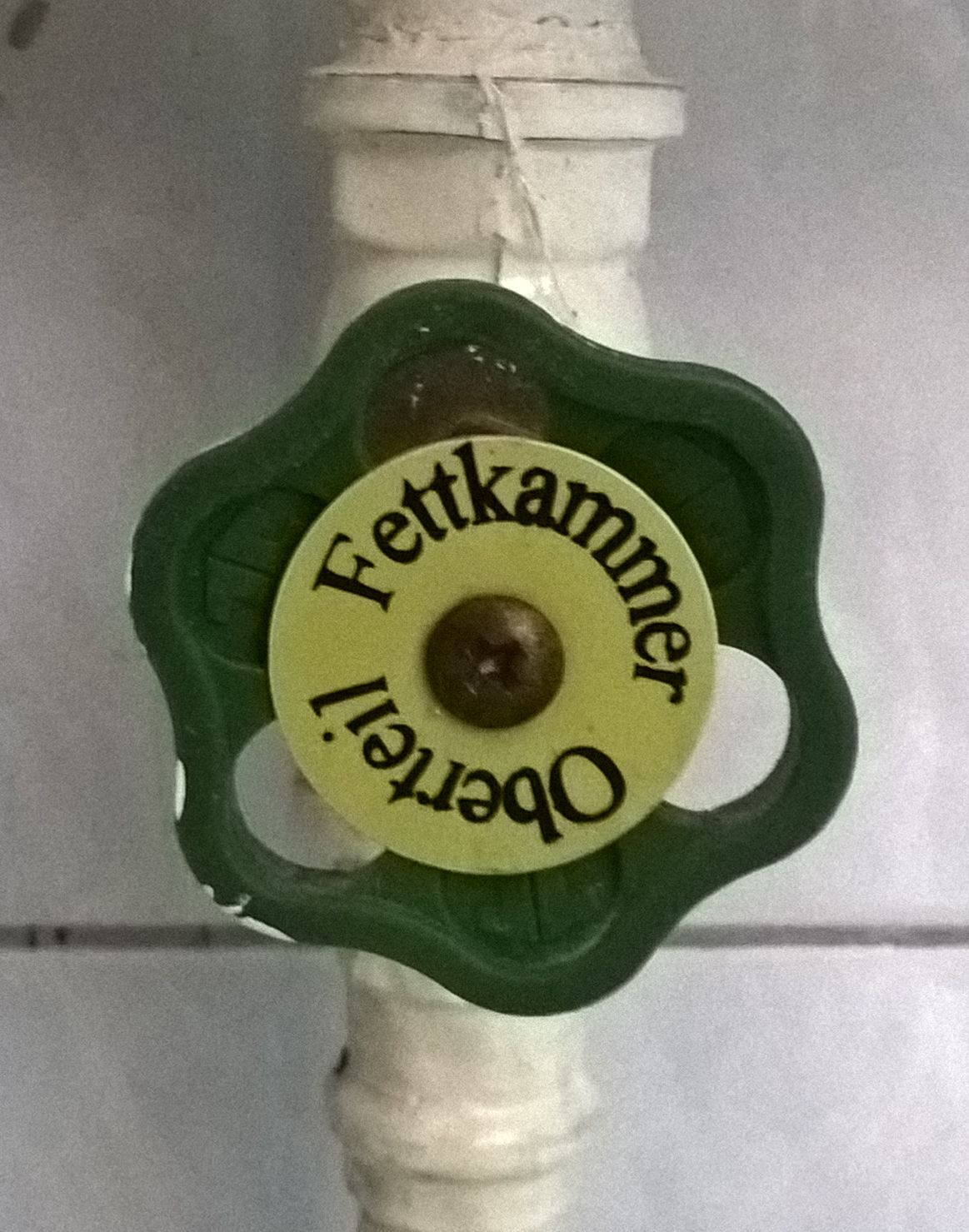 Fettkammer